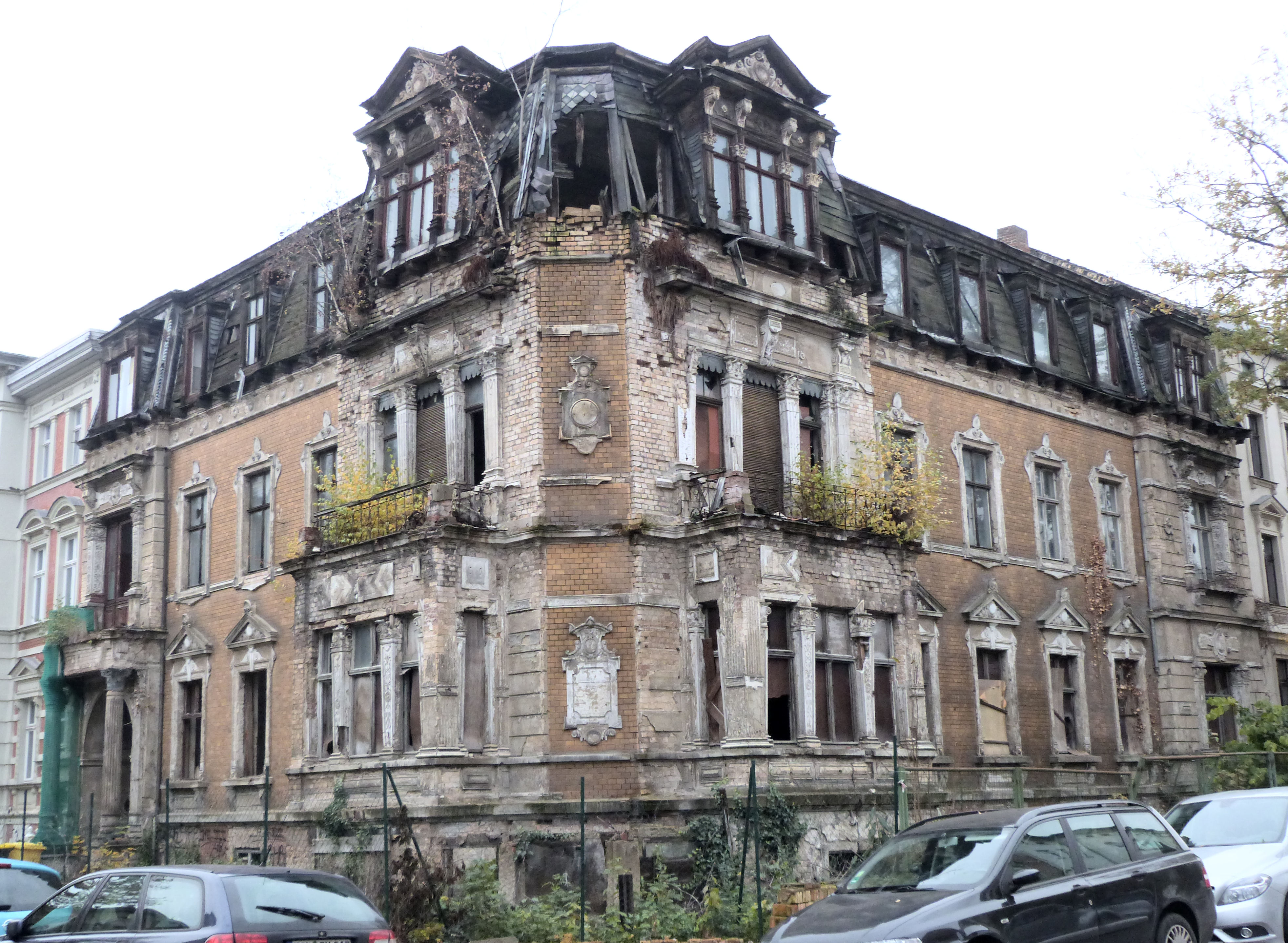 House No. 14 Blumenstrasse in Halle (Saale)